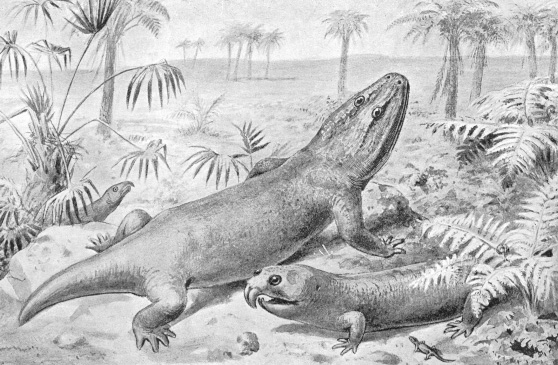 A late 19th century illustration of Mastodonsaurus and Hyperodapedon in their environment